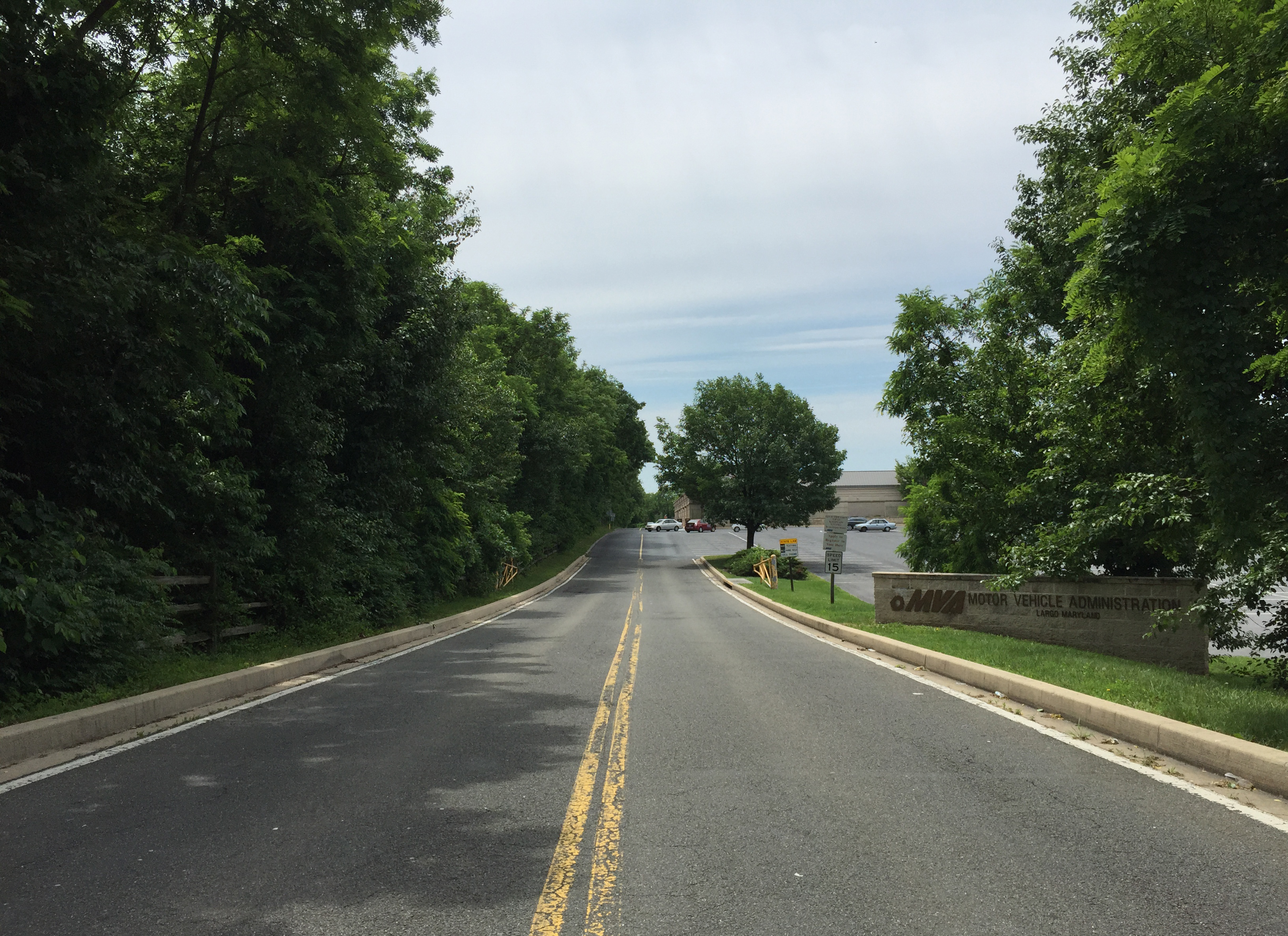 View south along Maryland State Route 977 (Old Largo Road) at Maryland State Route 214 (Central Avenue) in Kettering, Prince George's County, Maryland